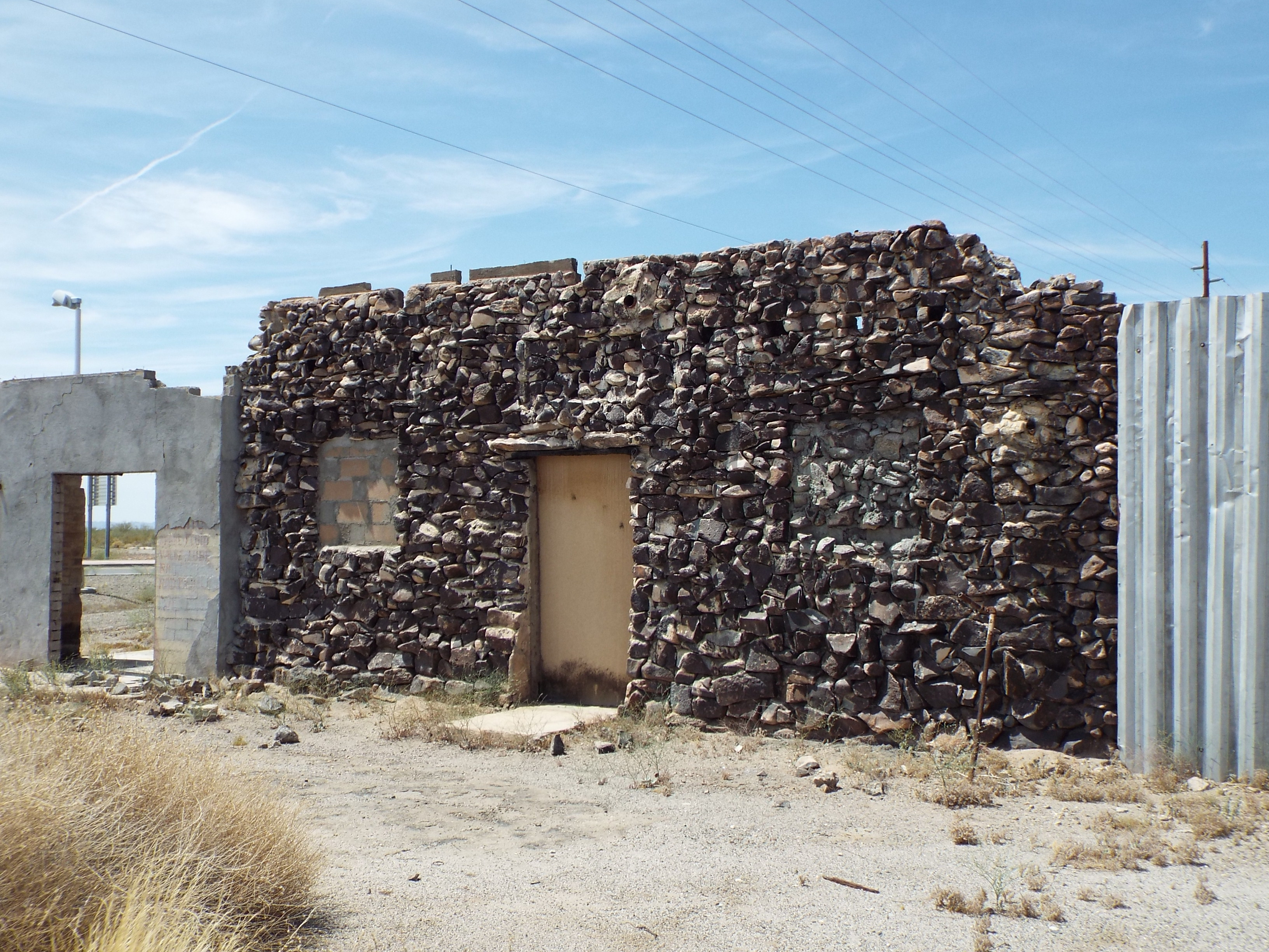 1908 Stage Stop Ruins in Salome, Arizona.